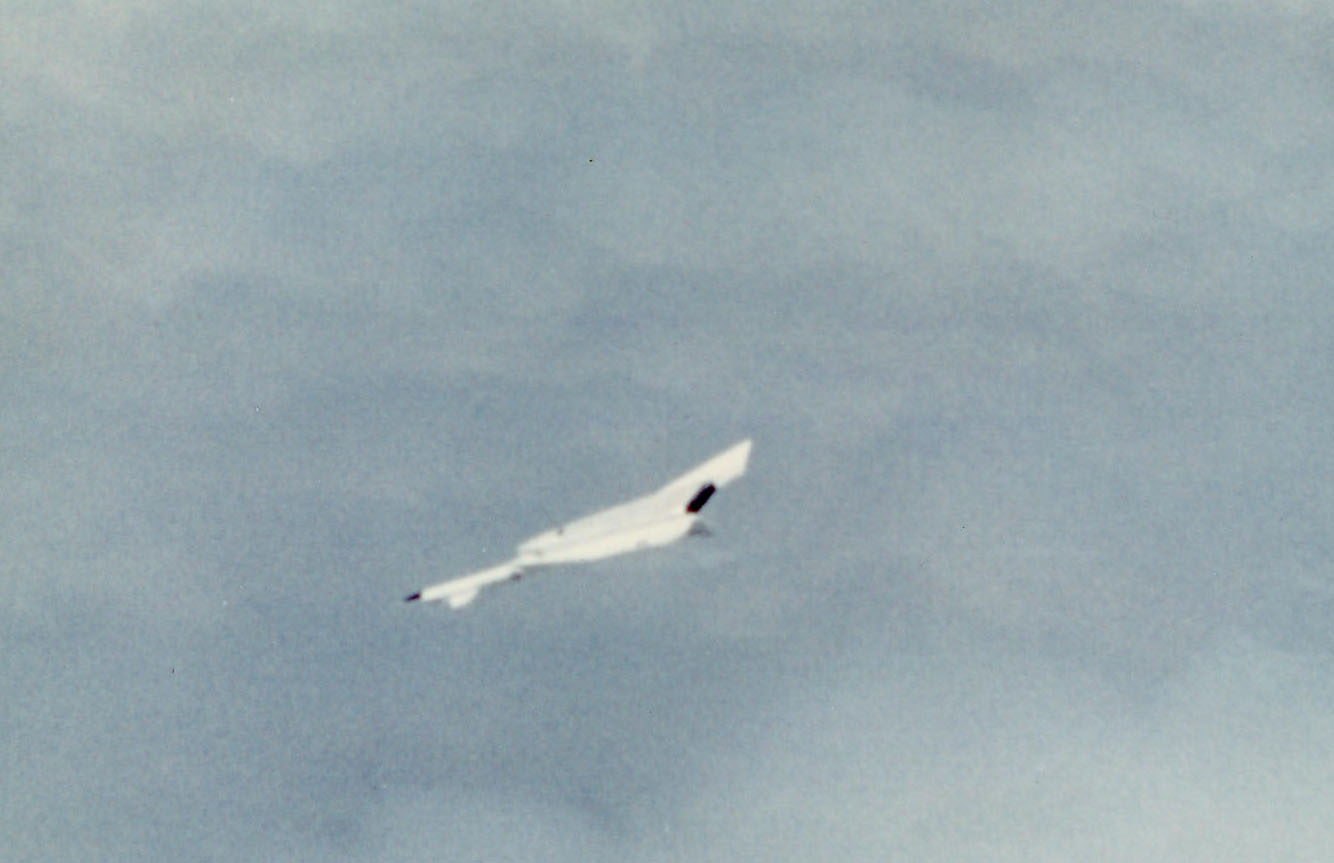 North American XB-70A Valkyrie inverted, flying out of control after a mid-air collision that destroyed part of its flight control surfaces